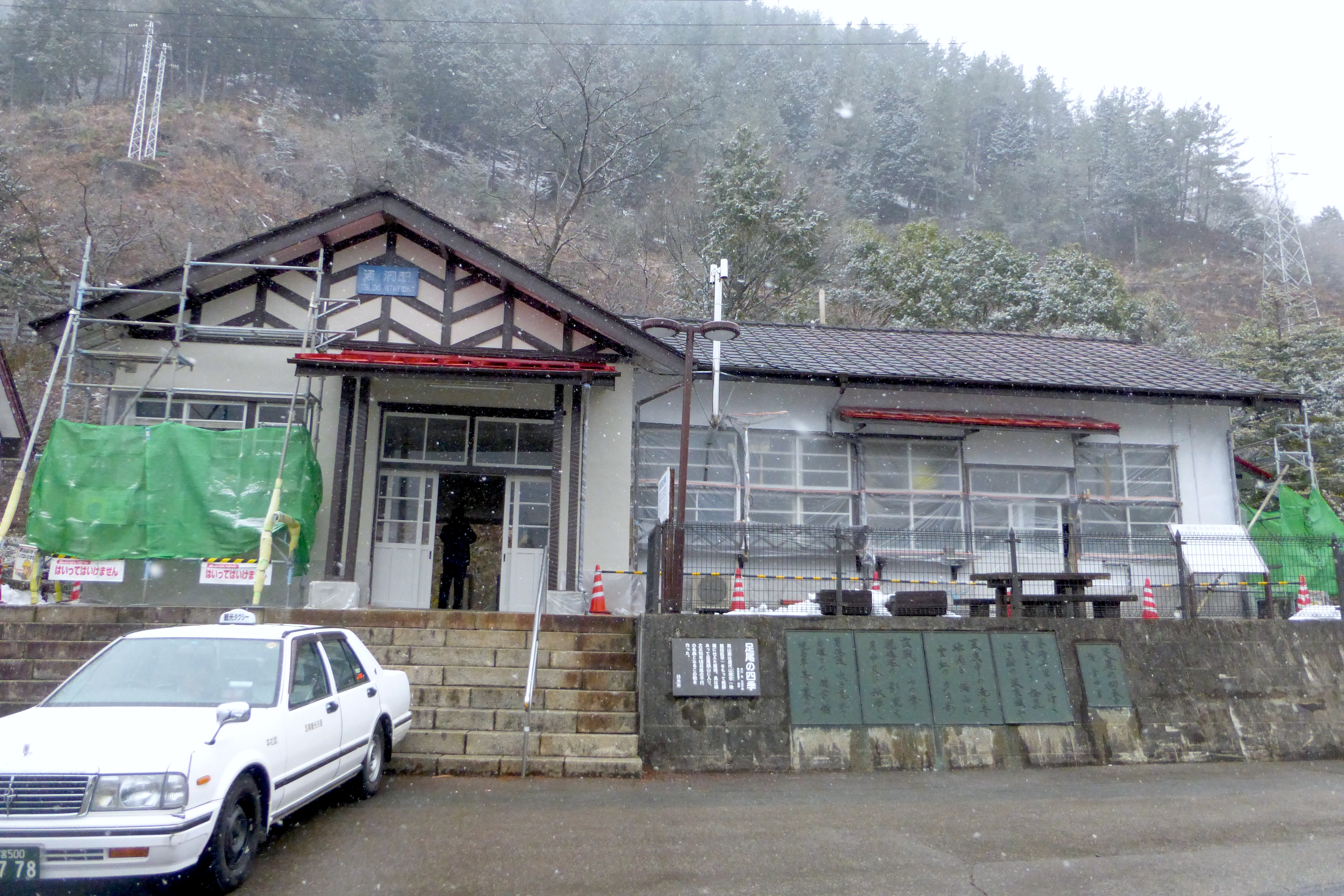 Tsūdō Station (通洞駅 Tsūdō-eki) building undergoing some restoration work, on a snowy day.